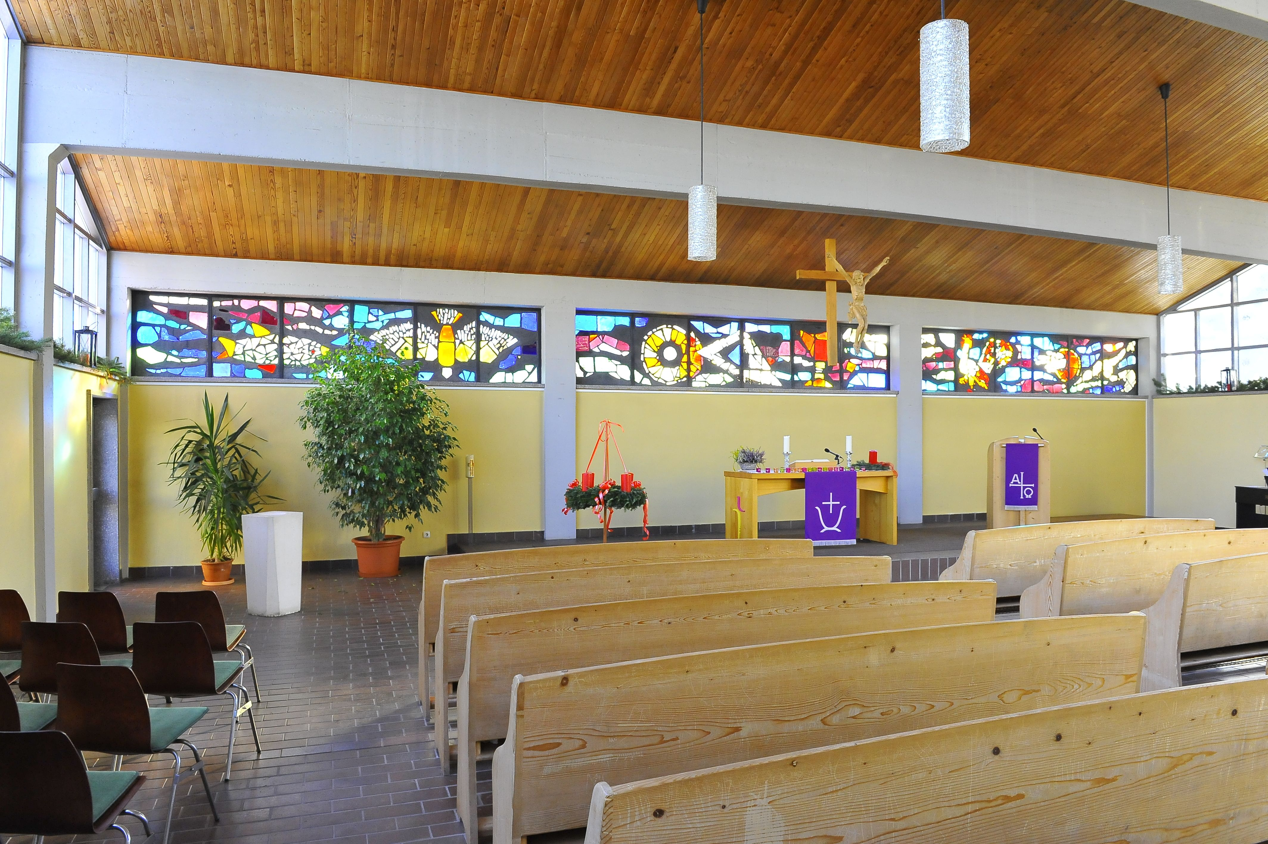 Presbytery of the Lutheran Christ church on the Auer-von-Welsbach-Street of Welzenegg, 10th district "Sankt Peter" of the Carinthian capital Klagenfurt on the Lake Woerth, Carinthia / Austria / EU